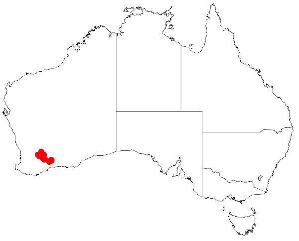 Acacia sedifolia Occurrence data from Australasia Virtual Herbarium downloaded from on 8 December 2018